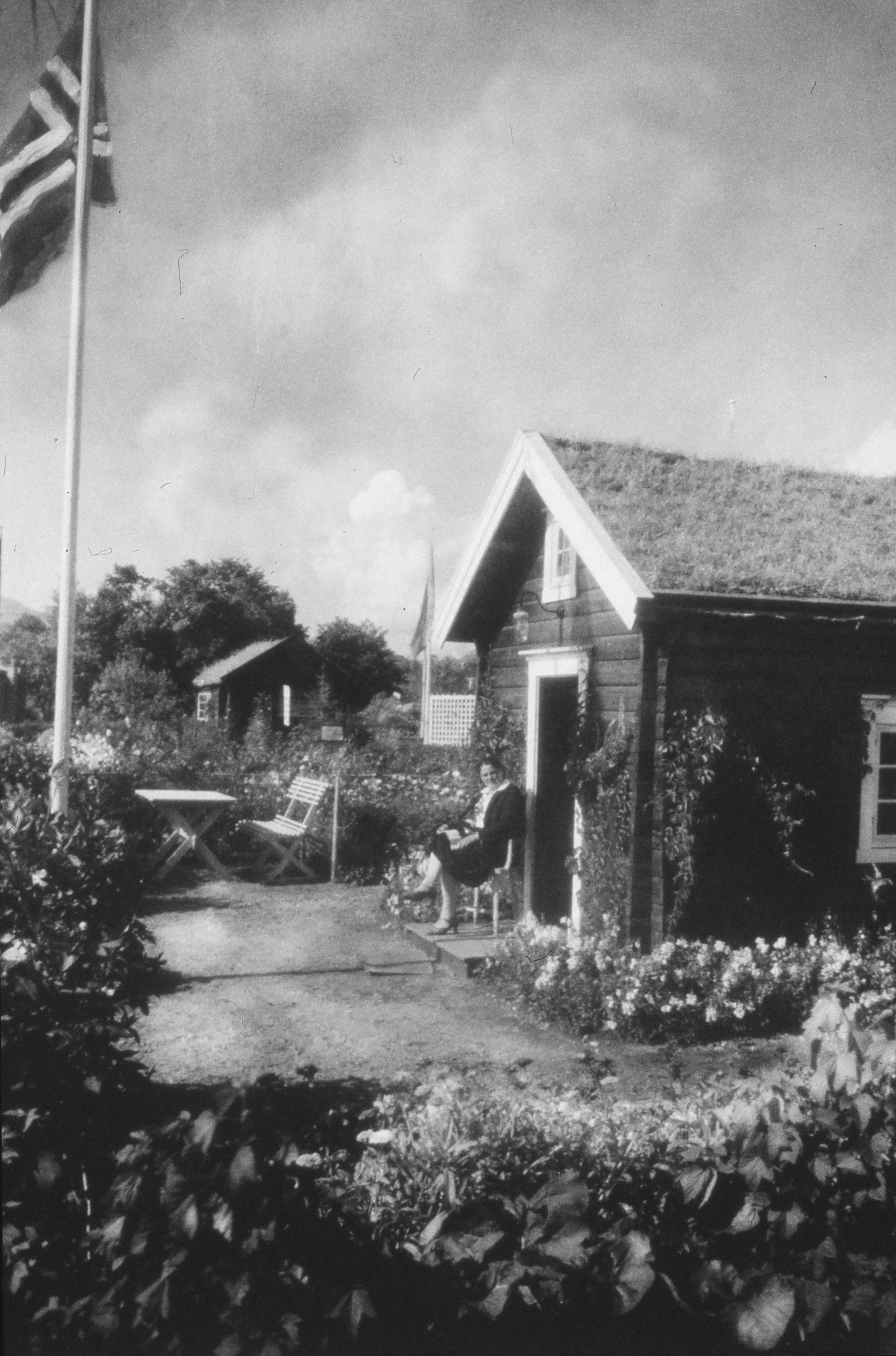 From the exhibition designed by "Lerkendal Kolonihaveforening" (Name of an allotment association) at the Trøndelag Exhibition in Trondheim, Norway, 1930